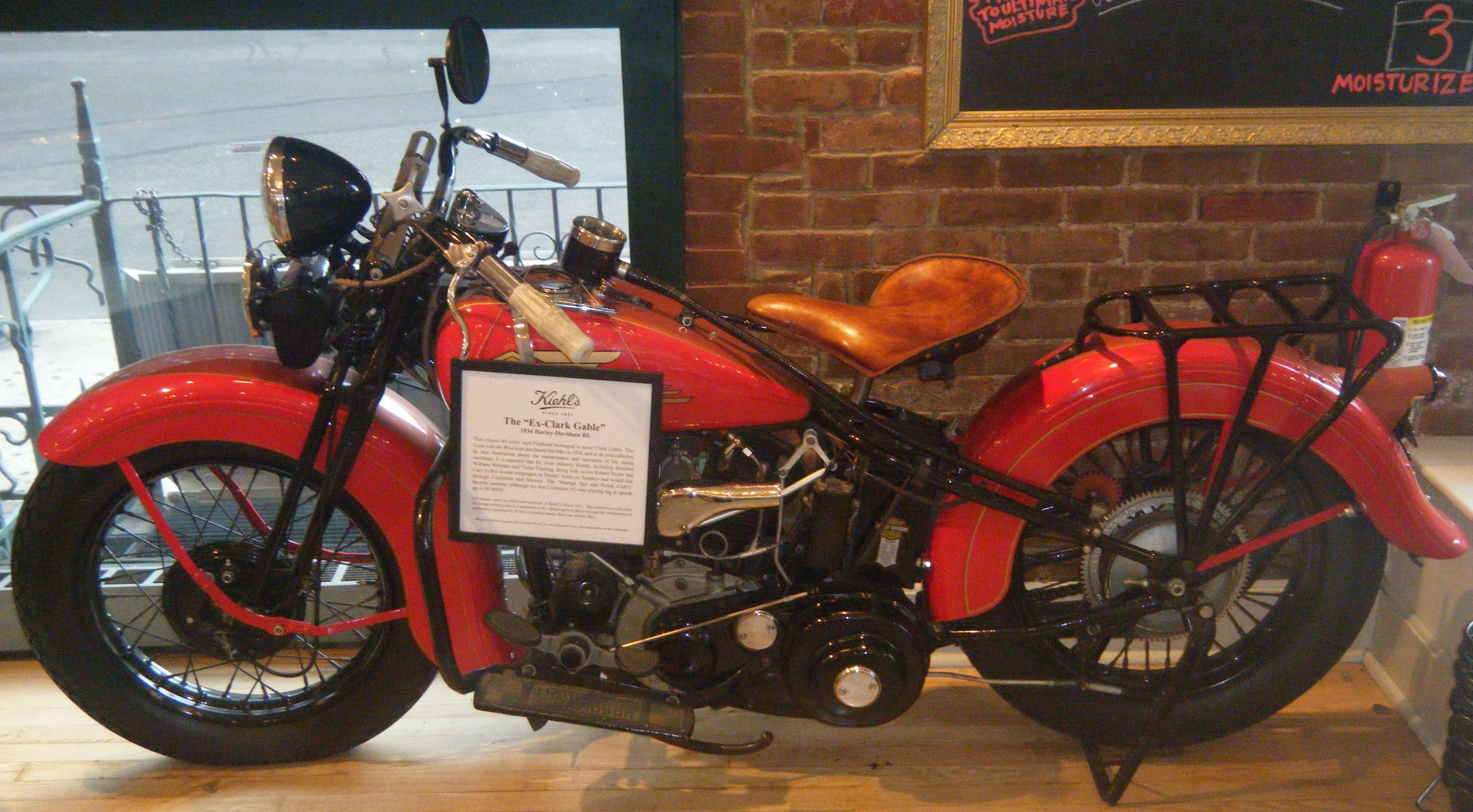 The "Ex-Clark Gable" 1934 Harley Davidson RL. Part of Kiehl's collection of vintage motorcycles found in original East Village store. The motorcycle was actually previously owned by Clark Gable.[1]